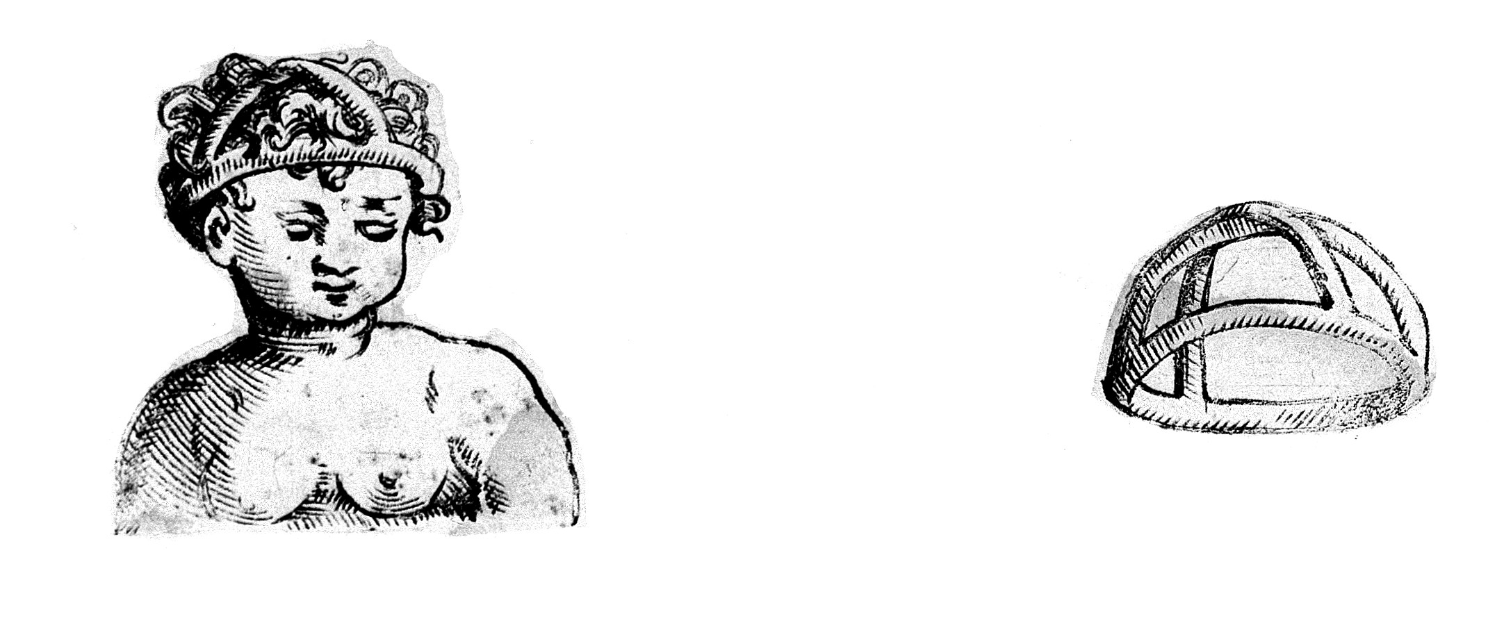 Cap or protective headband for children Rare Books Keywords: child care, 16th century; nursery nursing, 16th century; Omnibonus Ferrarius